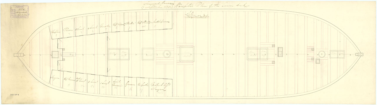 Warspite (1807) Scale: 1:48. Plan showing the lower deck with the cabin arrangement for Warspite (1807), a 74-gun Third Rate, two-decker, illustrating the ship as a 50-gun Fourth Rate, Frigate. She was cut down at Portsmouth Dockyard to a Frigate between 1838 and 1840. Signed by William Symonds [Surveyor of the Navy, 1832-1848]. WARSPITE 1807